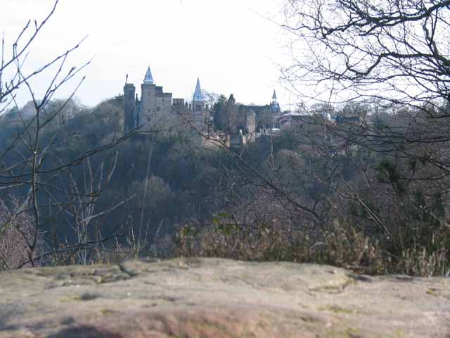 Alton Castle (SK0742) from Toothill Rock. Alton Castle sits on top of a hill overlooking the Churnet Valley, with spectacular views on all sides. Its style is reminiscent of the Rhineland and it is surrounded by the ruins of the medieval castle (1176), now scheduled as an Ancient Monument. See square SK0742)